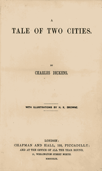 original title page of A Tale of Two Cities by Charles Dickens